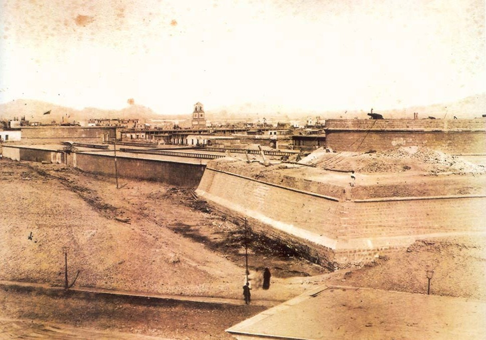 Fortress Royal Phillip in 1880. Callao - Peru